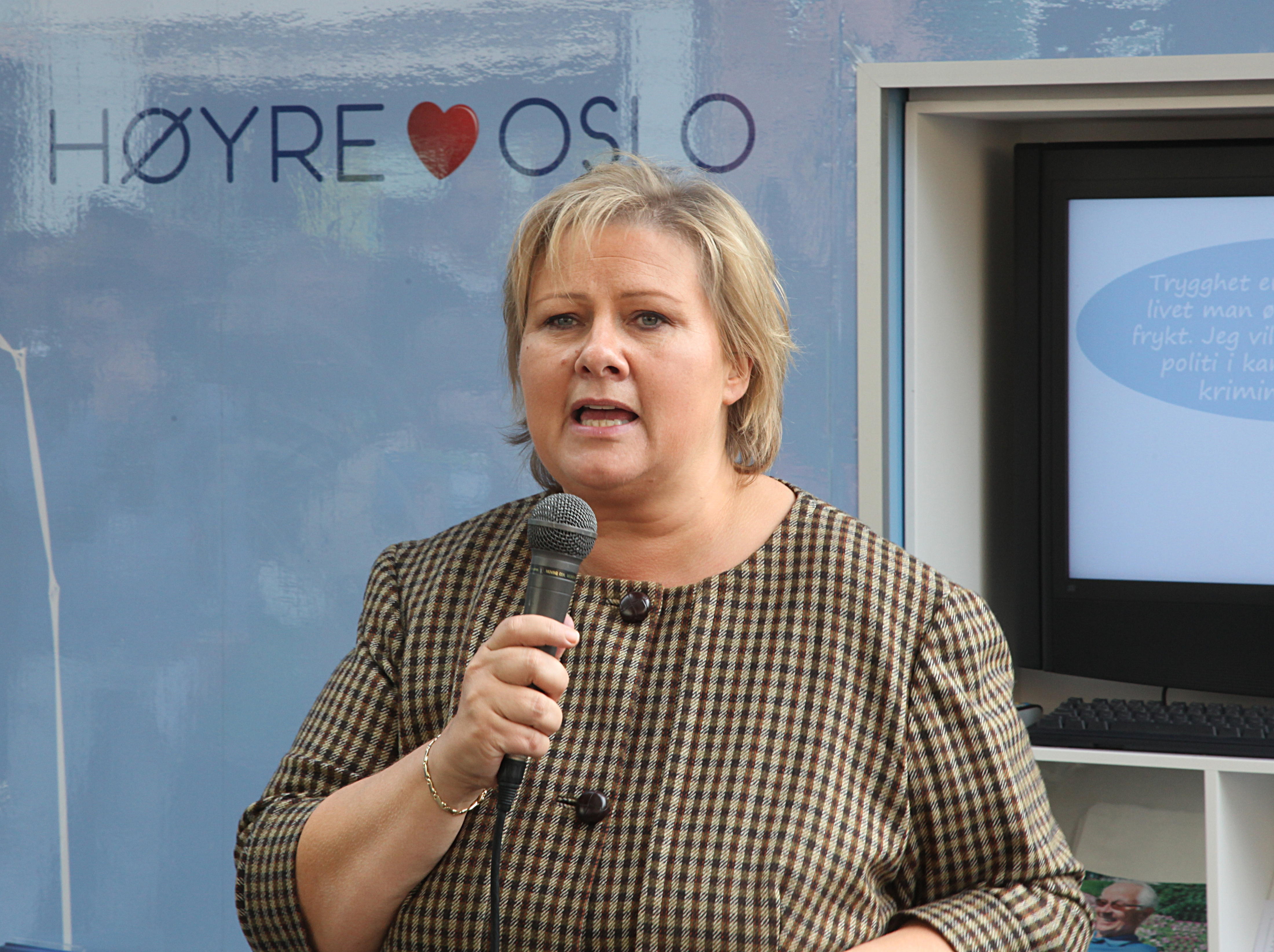 Erna Solberg on election stand in Oslo with a final appeal